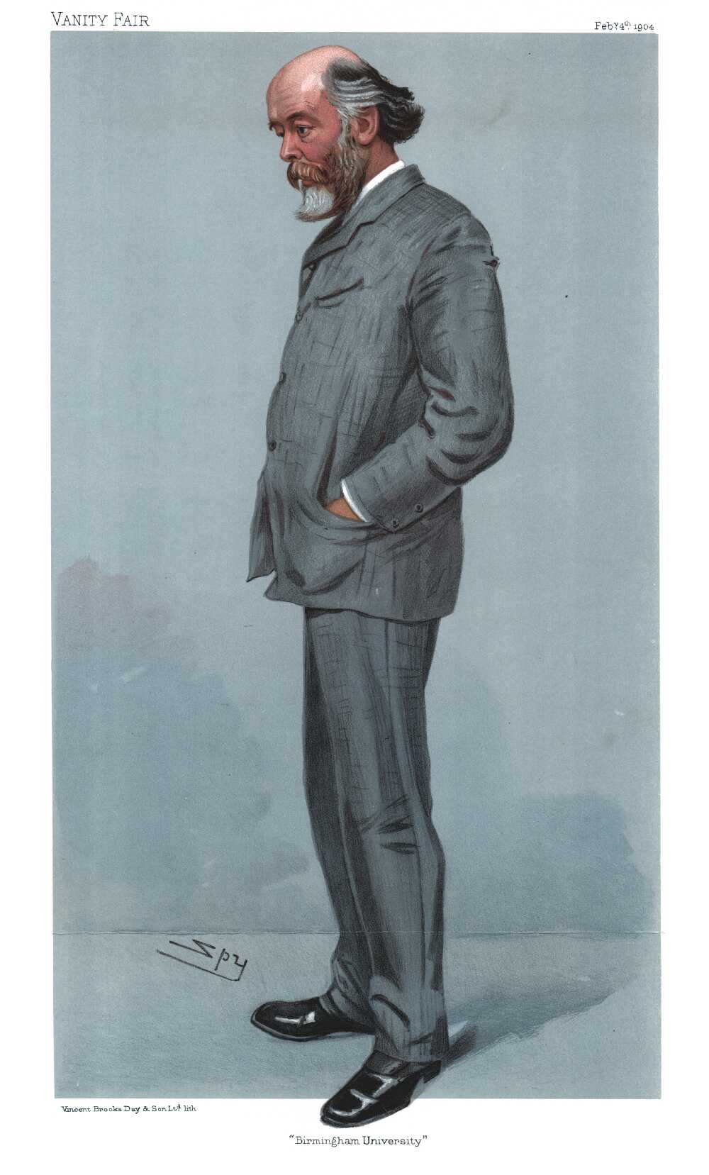 Caricature of physicist and writer Oliver Joseph Lodge. Caption read "Birmingham University".